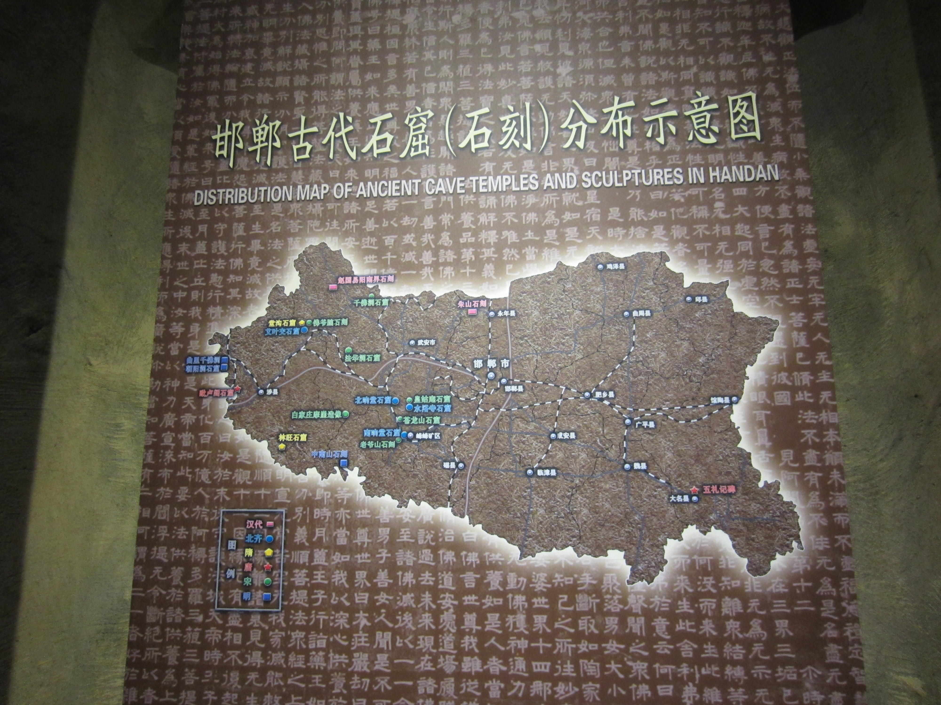 North Dynasties Buddha statues stone carvings in Handan